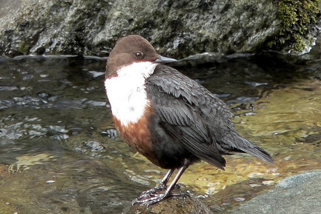 Dipper (Cinclus cinclus) A Dipper a resident of the Afon Arran.